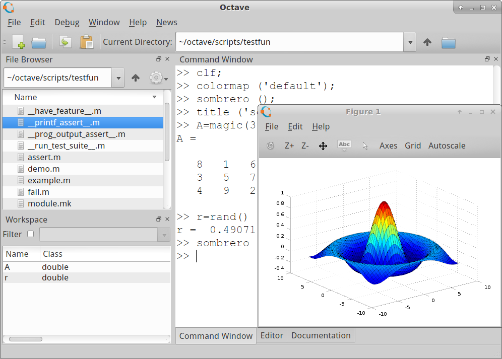 Screenshot of the Qt5 GUI of Octave 4.0.0 rc1 in Linux